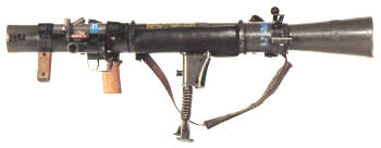 Anti Tank Weapon Carl Gustav recoilless rifle